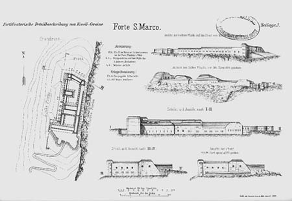 Fort San Marco near Verone